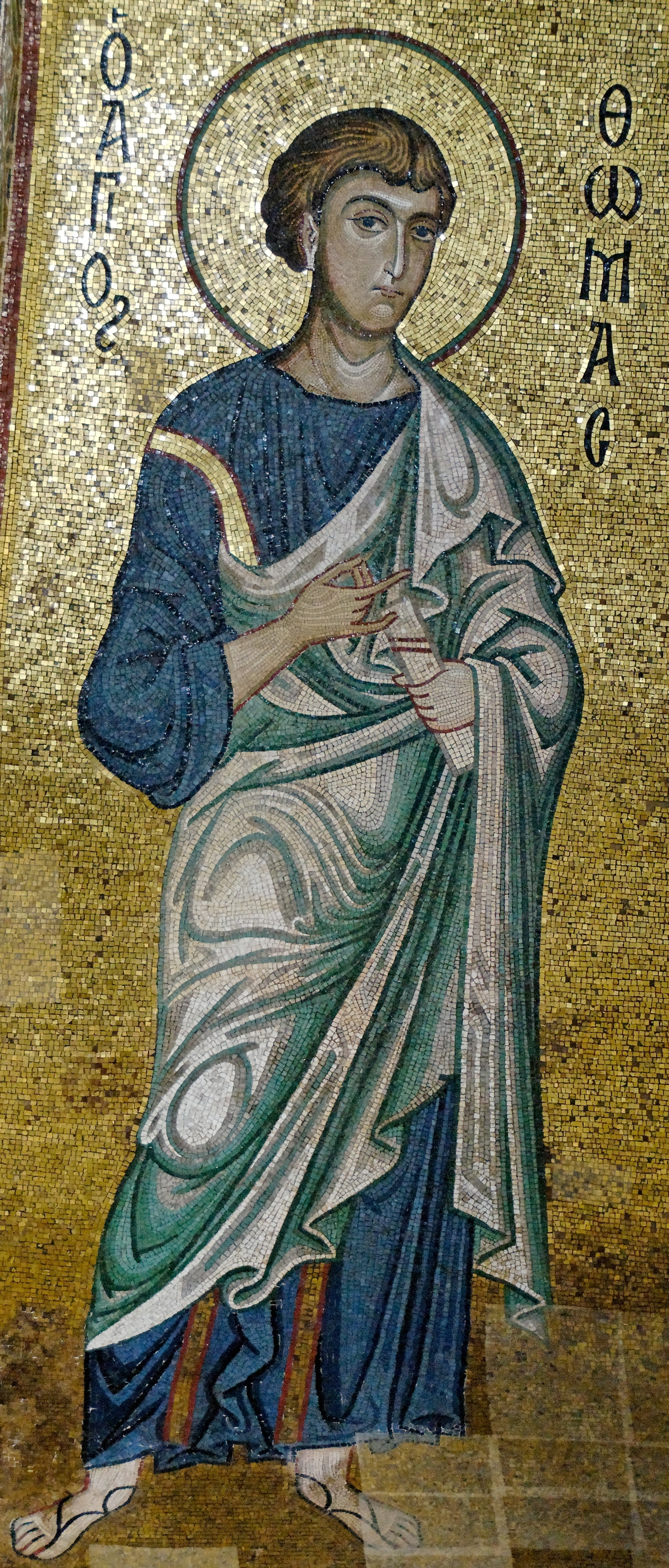 St Thomas the Apostle. 12th-century mosaic from the Byzantine part of La Martorana, also known as Santa Maria dell'Ammiraglio in Palermo, Sicily.